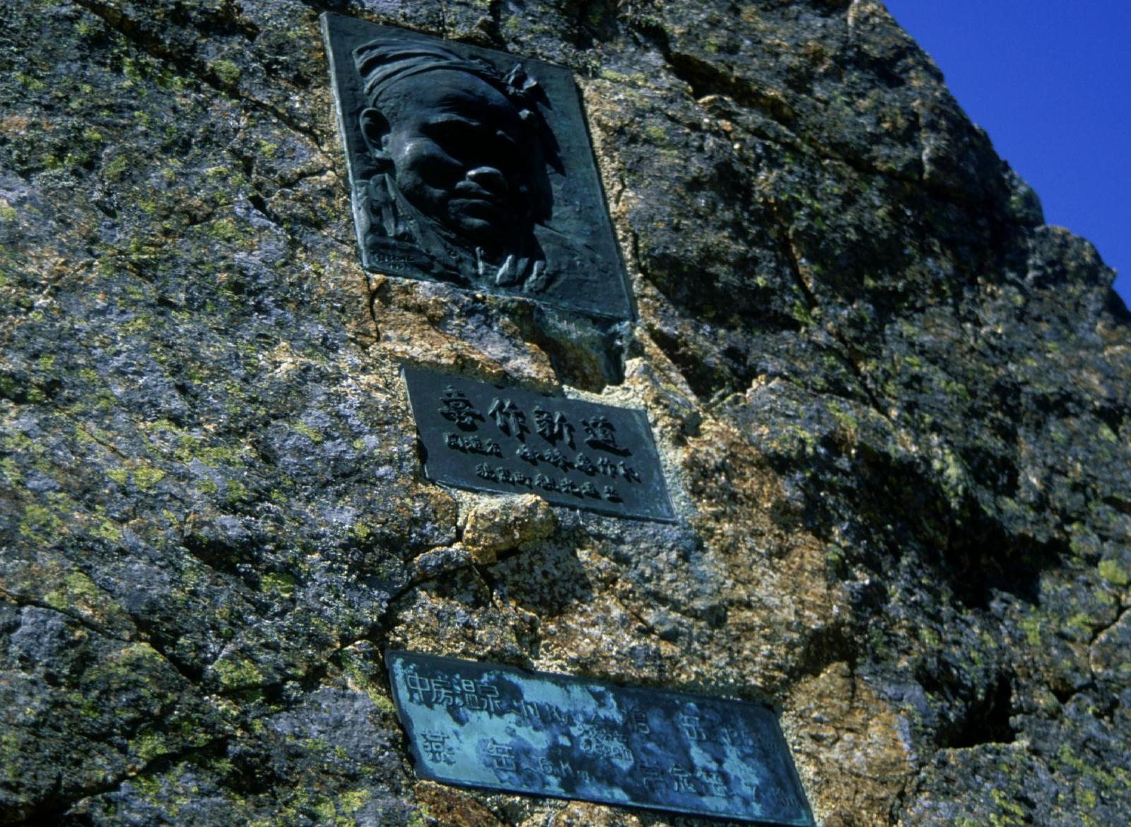 Kobayashi Kisaku Relief in Mount Otensho